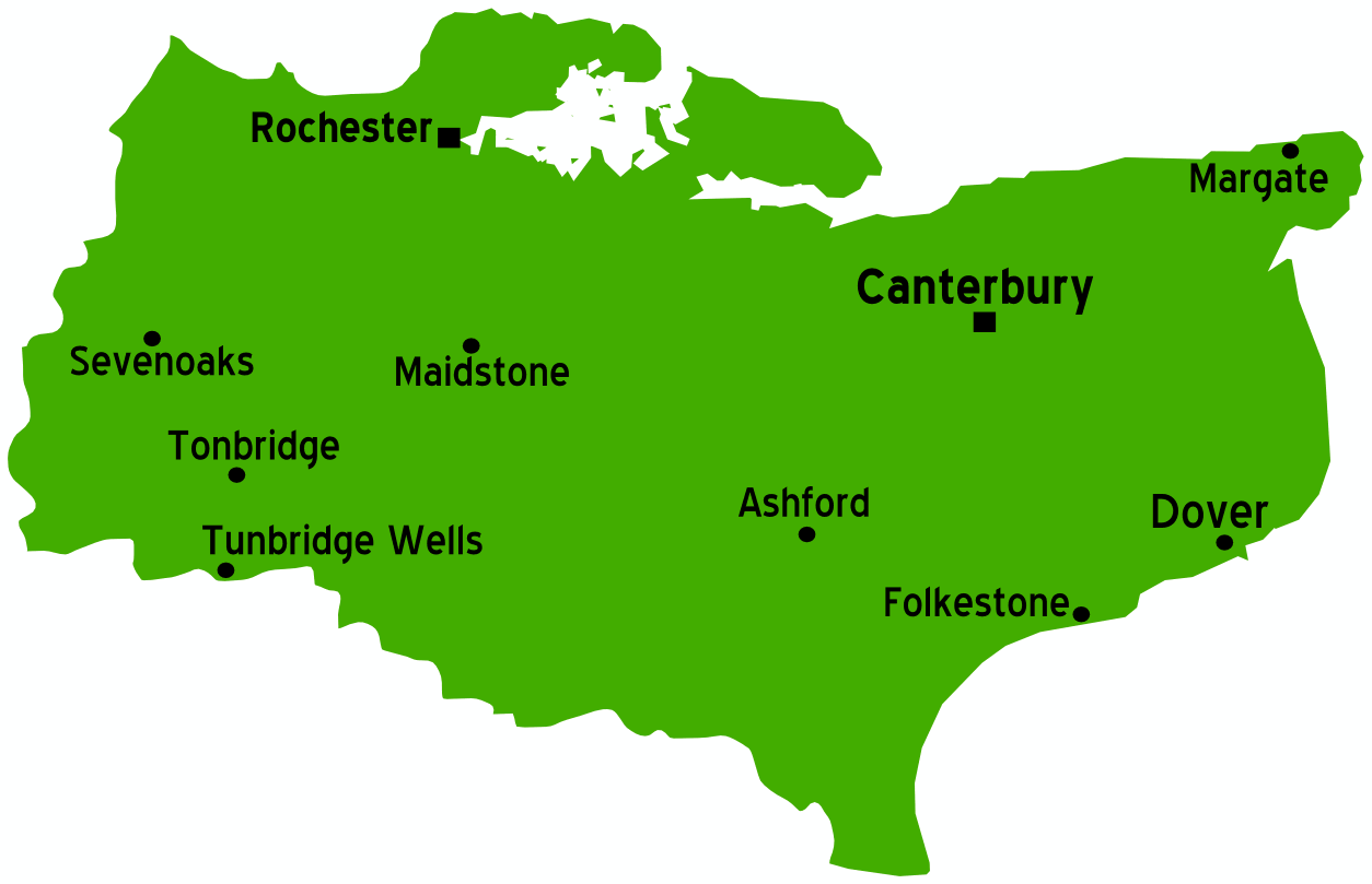 Map of Kent Source: :Image:UK map.svg map: England Map of: England